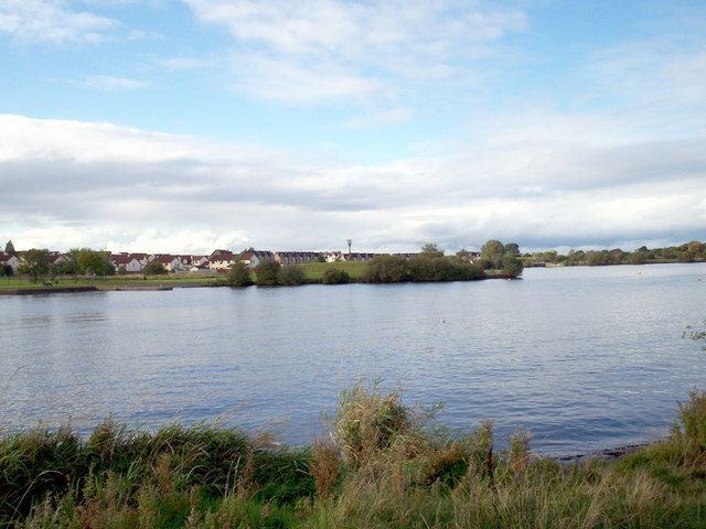 Craigavon Lakes Taken from the Craigavon City Park car park.